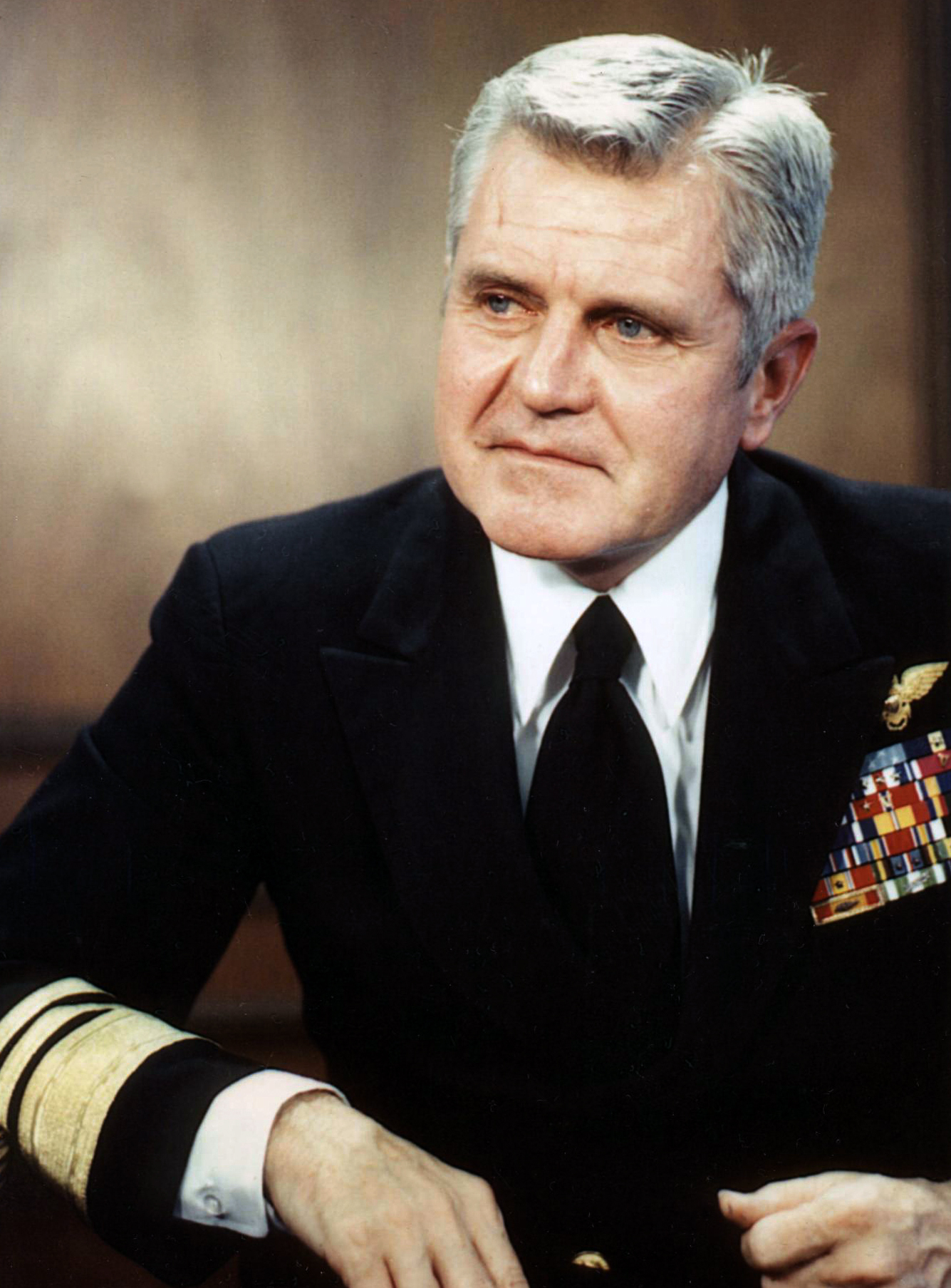 Navy File Photo: Newport, R.I. (1979) - Portrait of Vice Admiral James B. Stockdale, while President of the U.S. Naval War College. U.S. Navy Photo by Journalist 1st Class Rick Doyle (RELEASED)